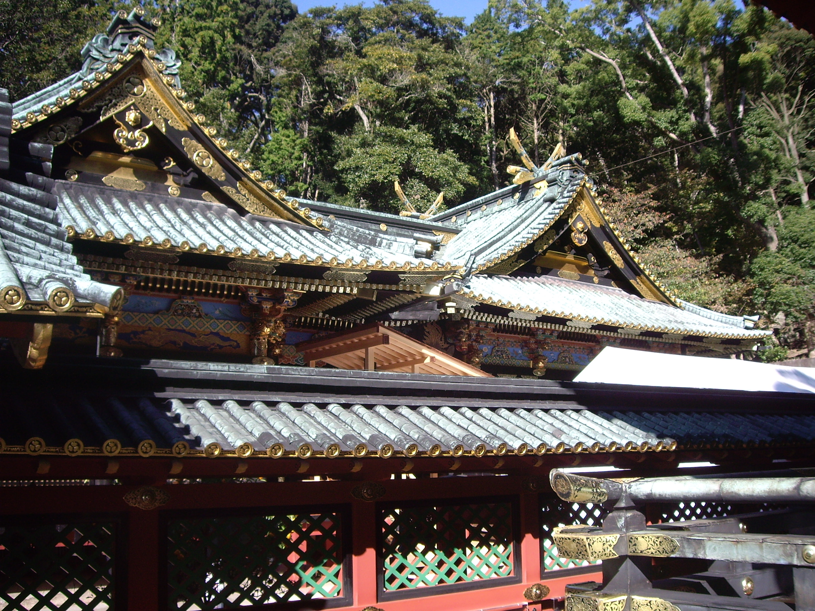 Kunozan Tosho-gu roofs